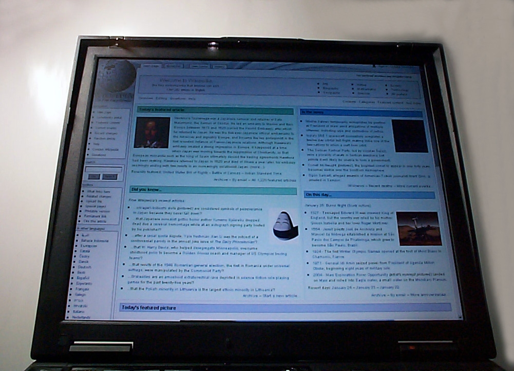 Personal Computer ThinkPad_X20_{ThinkLight} IBM Japan